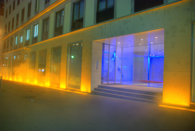 Opening of olafur eliassons installation "yellow fog" in Vienna - Am Hof 6a - Sammlung Verbund